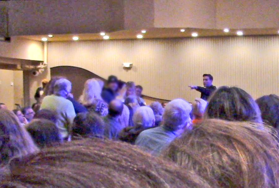 Matt Fraser pointing to anyone that raises their hand